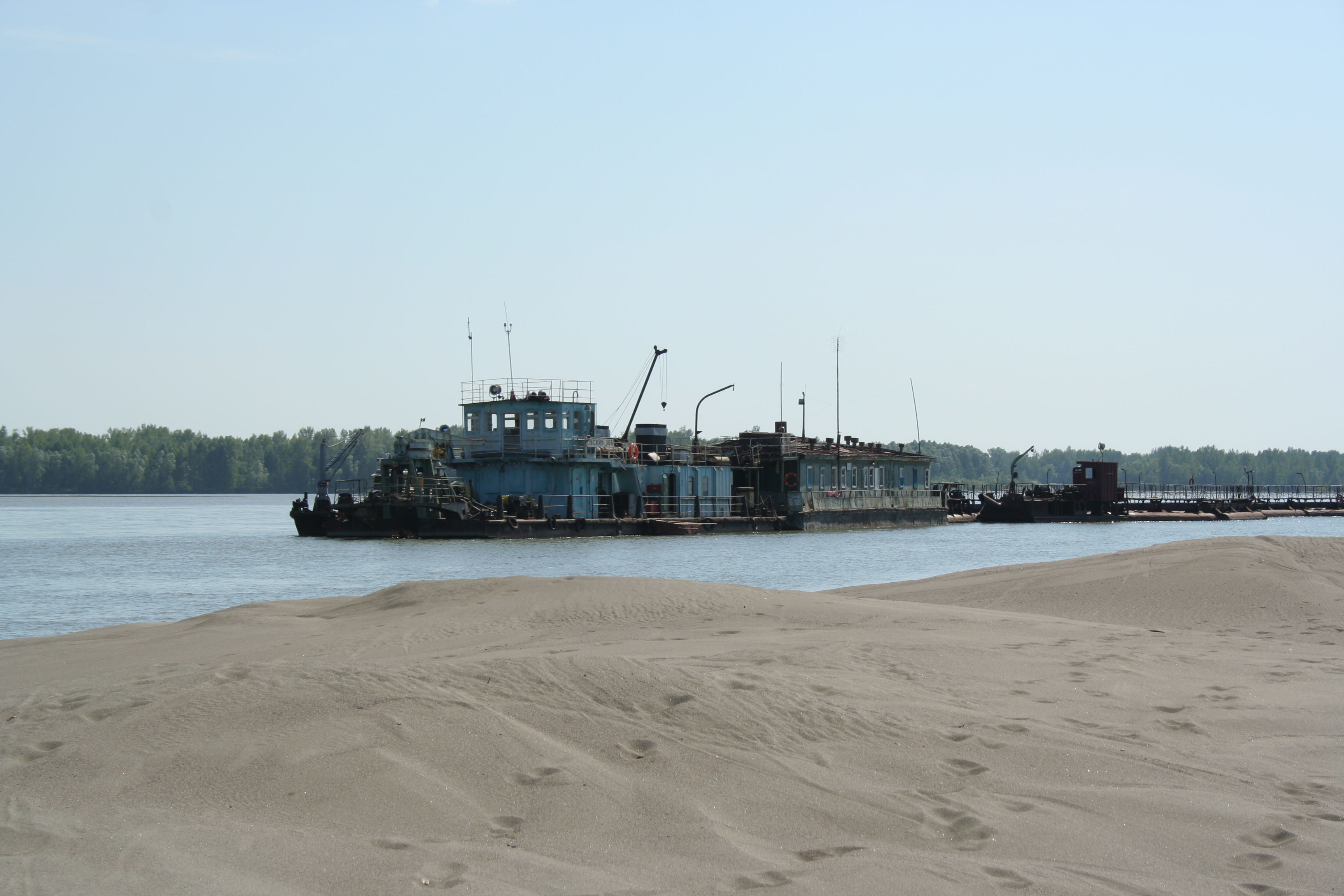 Dredger «Obskij–305» on Ob River (Russia).